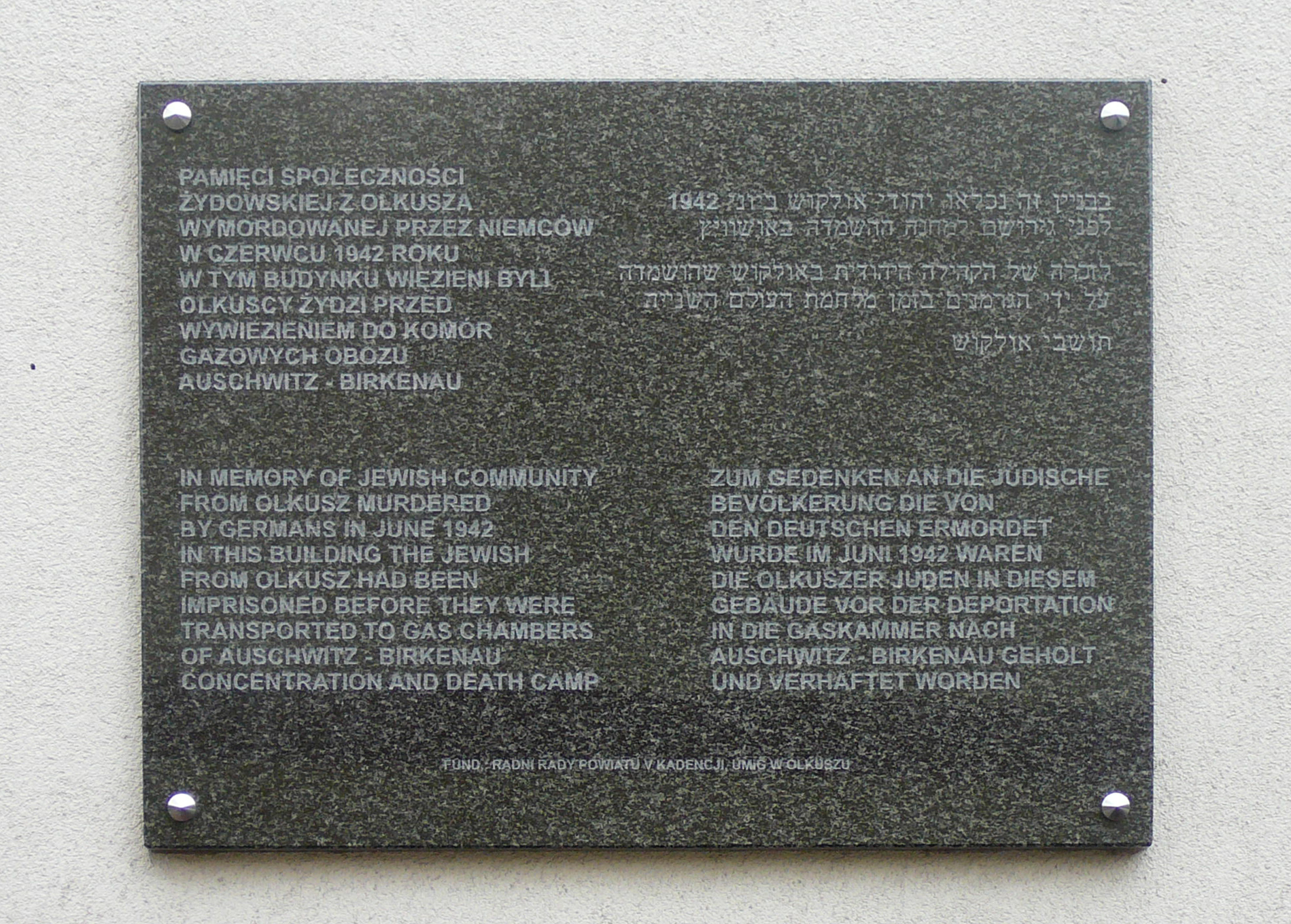 Memorial plaque at the wall of county HQ in Olkusz, commemorating the liquidation of Olkusz ghetto in 1942.